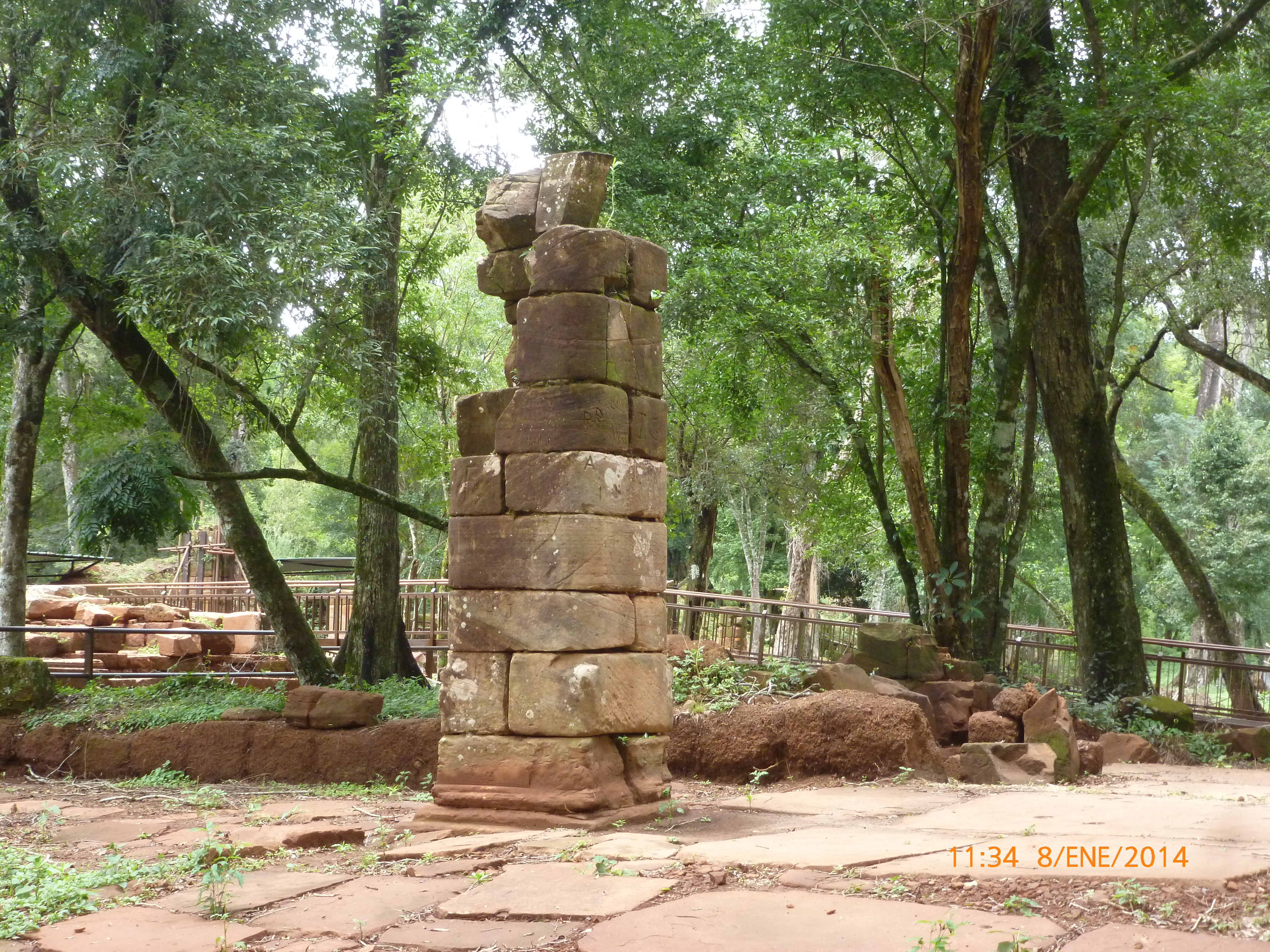 Church ruins in Loreto, Misiones Province, Argentina.